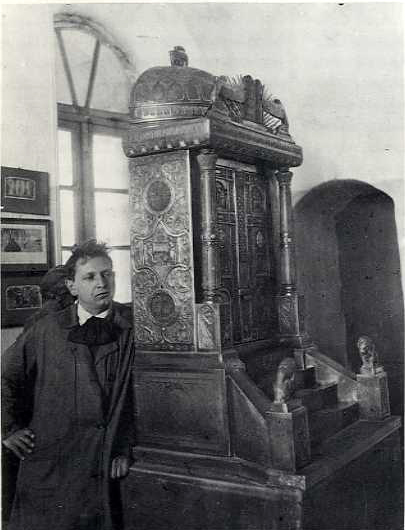 Zeev_raban_with_the_bezalel_torah_ark displayed at the first tower of david exhibition. israek museum collection